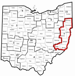 prepared by Jeff Hendrickson